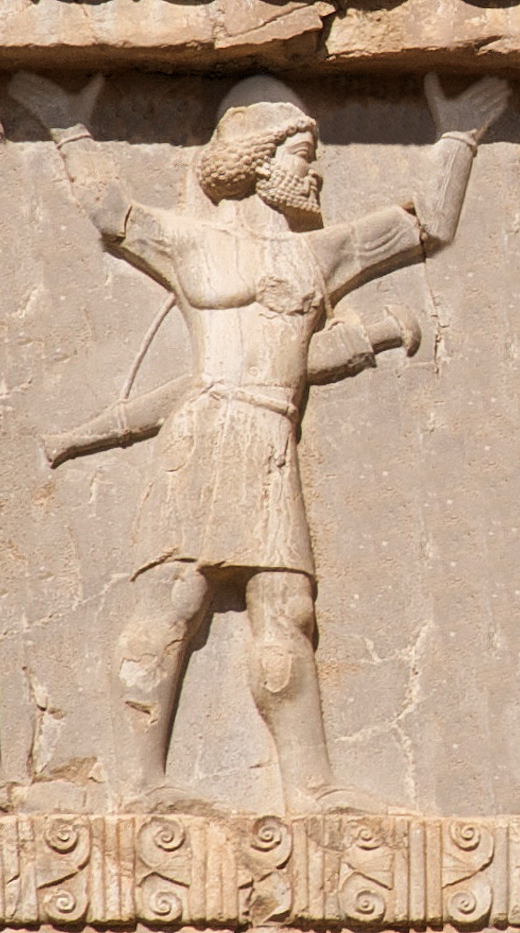 Xerxes detail Gandharan enhanced